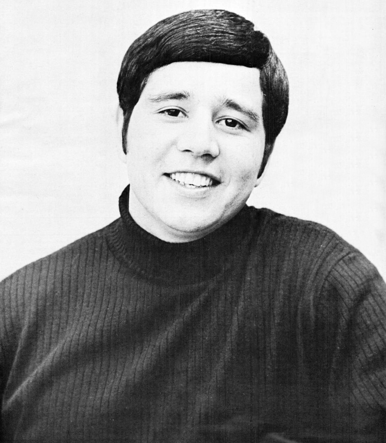 Trade ad for Chris Montez's single "Because Of You".To better adapt it to his respective Wikipedia article, the ad was cropped and cleaned in a graphics editing program. The original can be viewed at the source below.